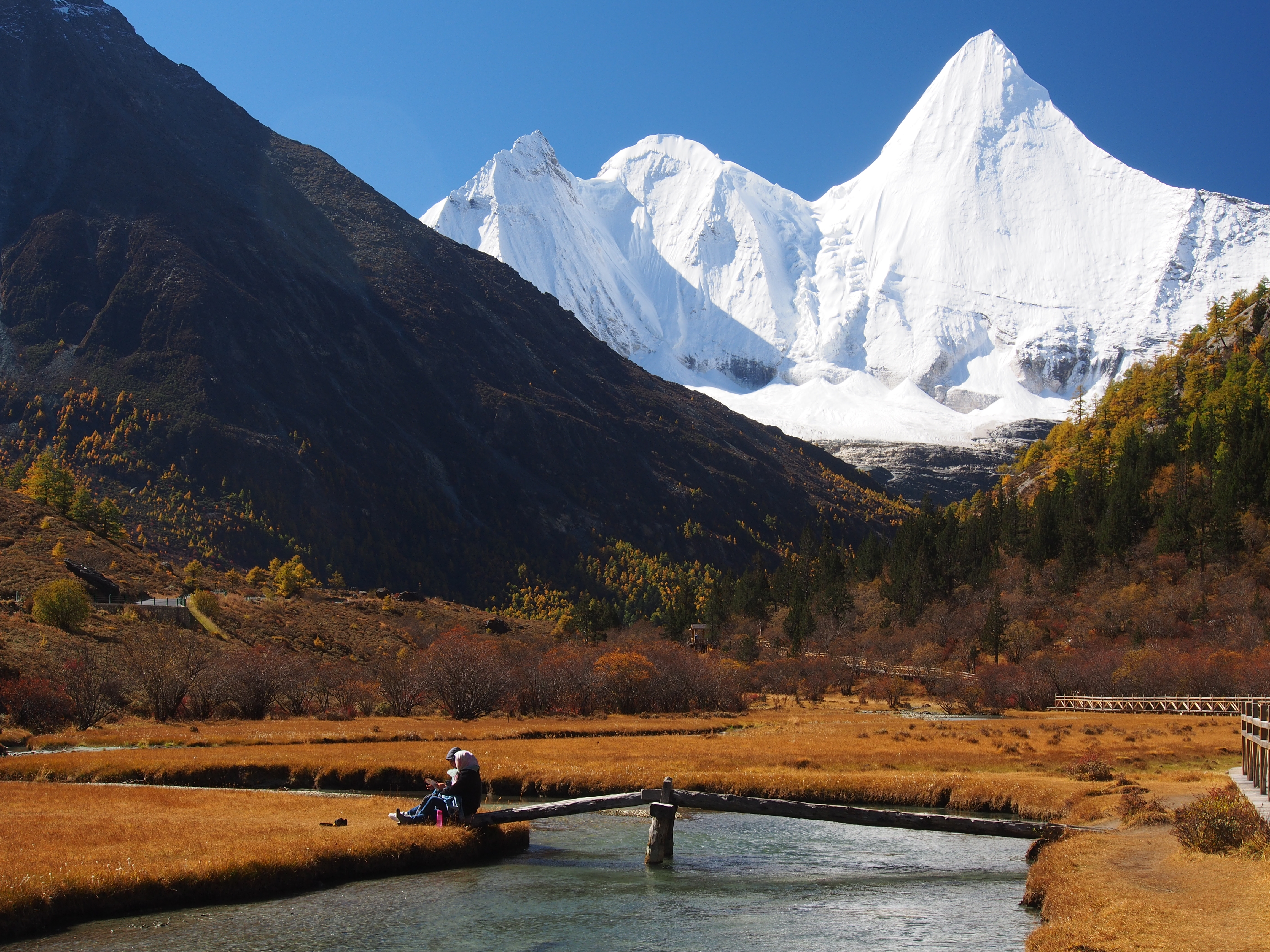 Jampelyang (Yangmaiyong, 5958m), Yading National Nature Reserve